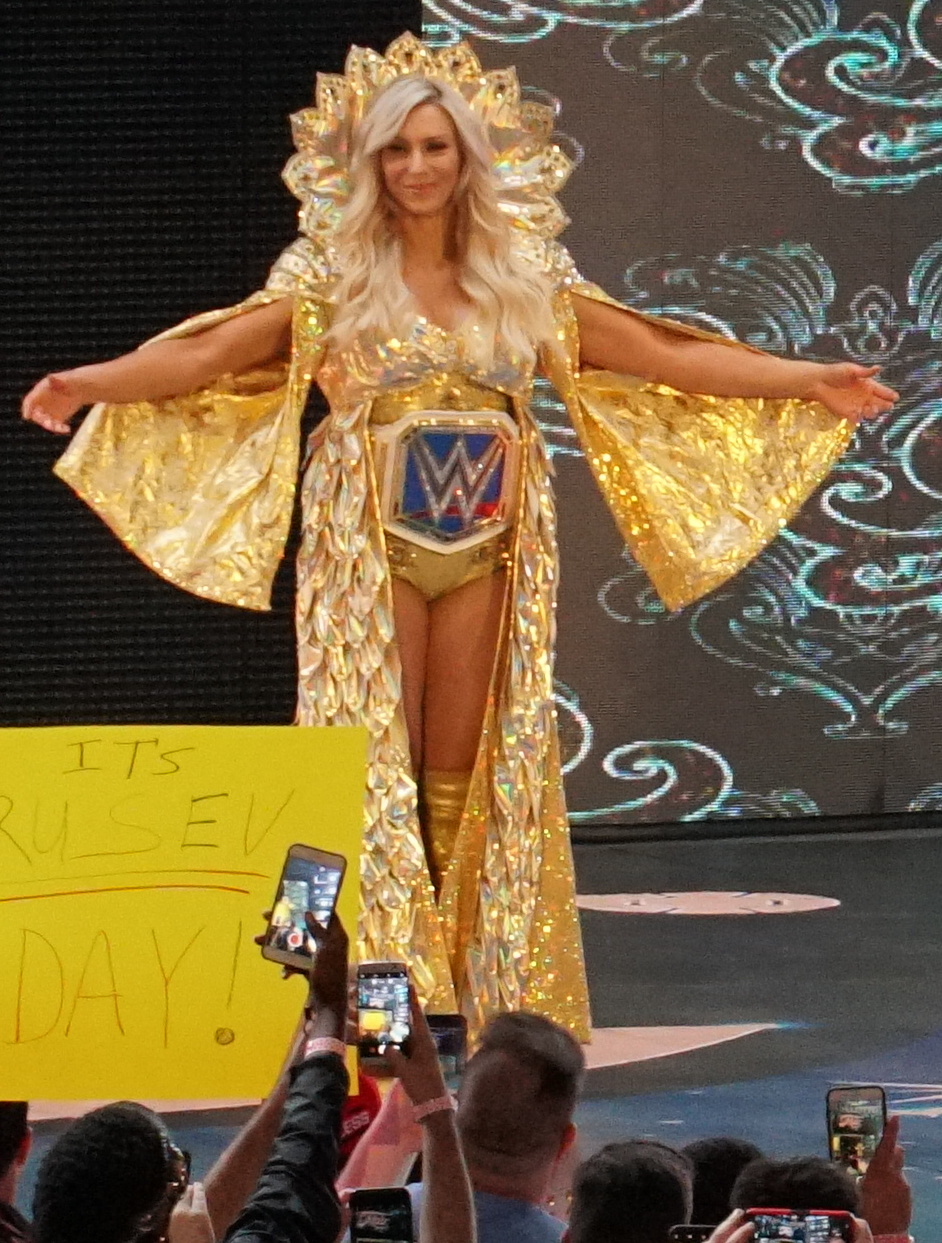 NOLA 2018 - WWE Smackdown Live - Arrival of The Iconic Duo The Iconic Duo makes her debut to Smackdown by beating up Charlotte Flair ( Deux semaines a Nola pour la ville et pour WWE Wrestlemania XXXIV Two weeks Nola for the city and for WWE Wrestlemania XXXIV )